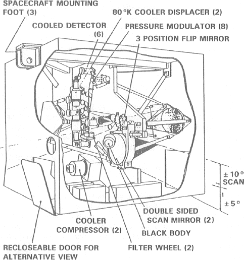 Cutaway view of the Improved Stratospheric and Mesospheric Sounder (ISAMS) which flew on the Upper Atmosphere Research Satellite mission